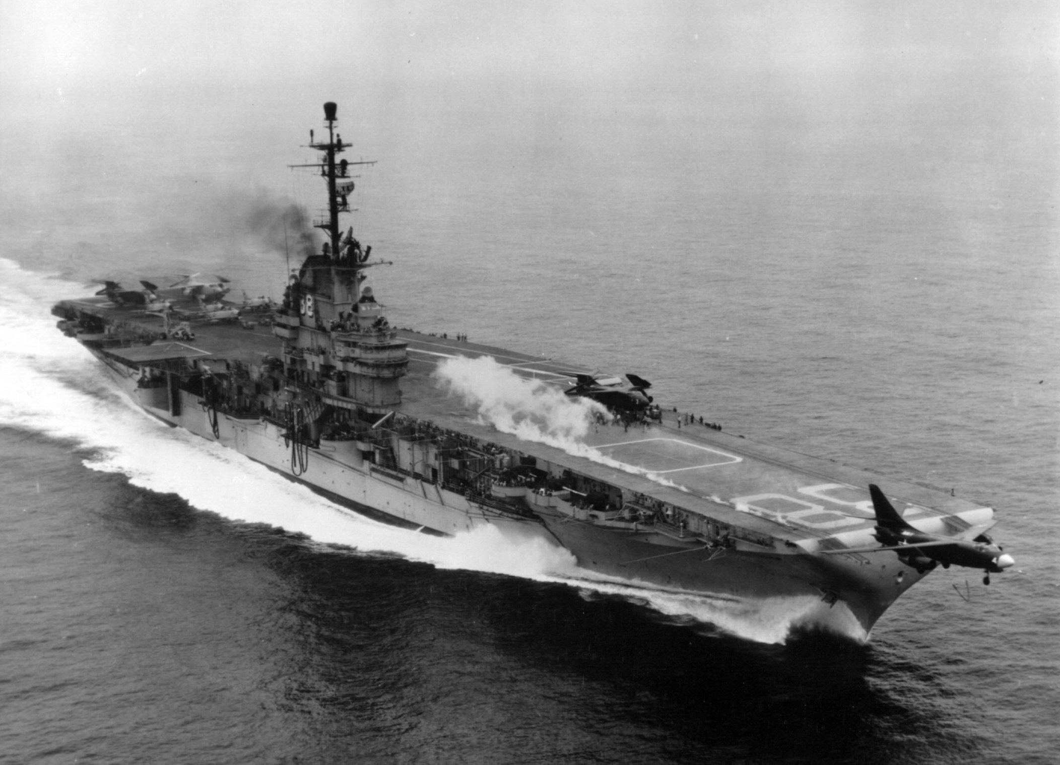 A U.S. Navy Douglas A3D-1 Skywarrior of Heavy Attack Squadron VAH-1 launching from USS Shangri-La (CVA-38). This was the first A3D catapult shot, the pilot was Dick Davidson. Note the catapult bridle dropping below the A3D.